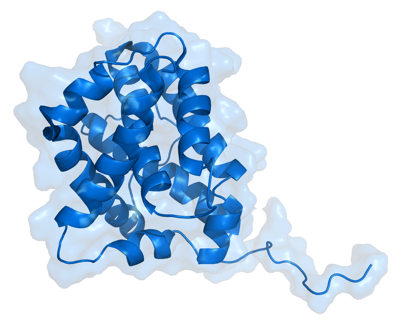 Bcl-2-associated X protein or BAX rendered with PyMol